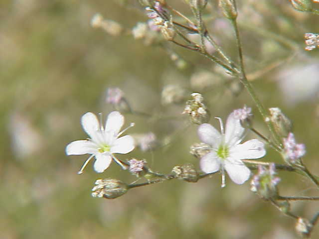 Species: Gypsophila acutifolia Family: Caryophyllaceae Image No. 1